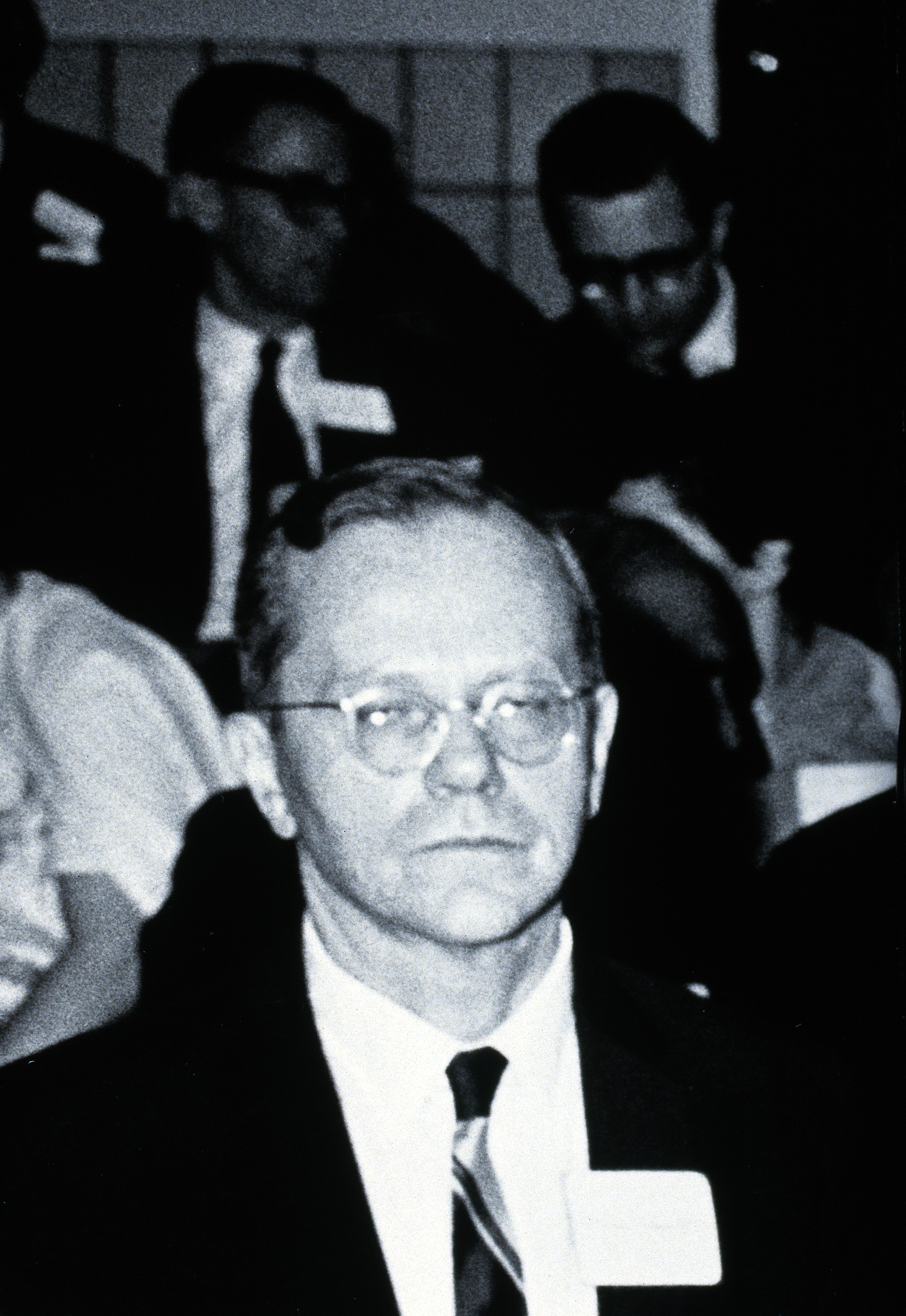 William Trager biographical info. Photograph by L.J Bruce-Chwatt. Iconographic Collections Keywords: portrait photographs